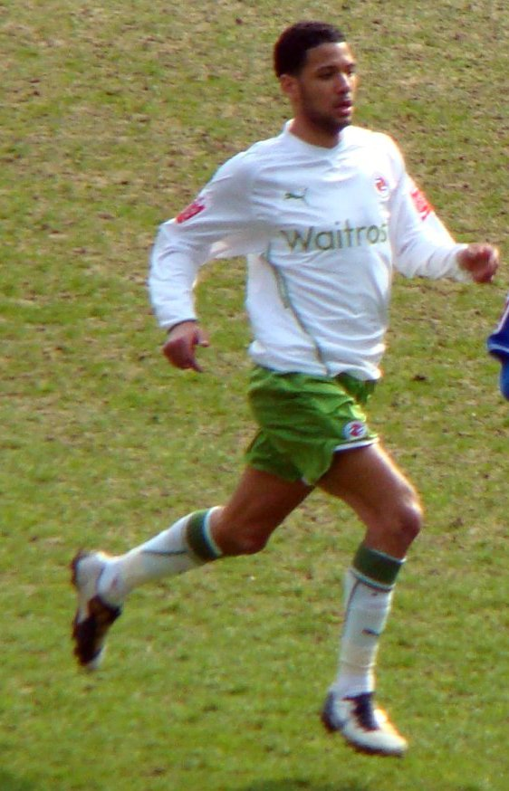 10/04/10 Cardiff V Reading, Championship, Cardiff City Stadium, Cardiff, Wales